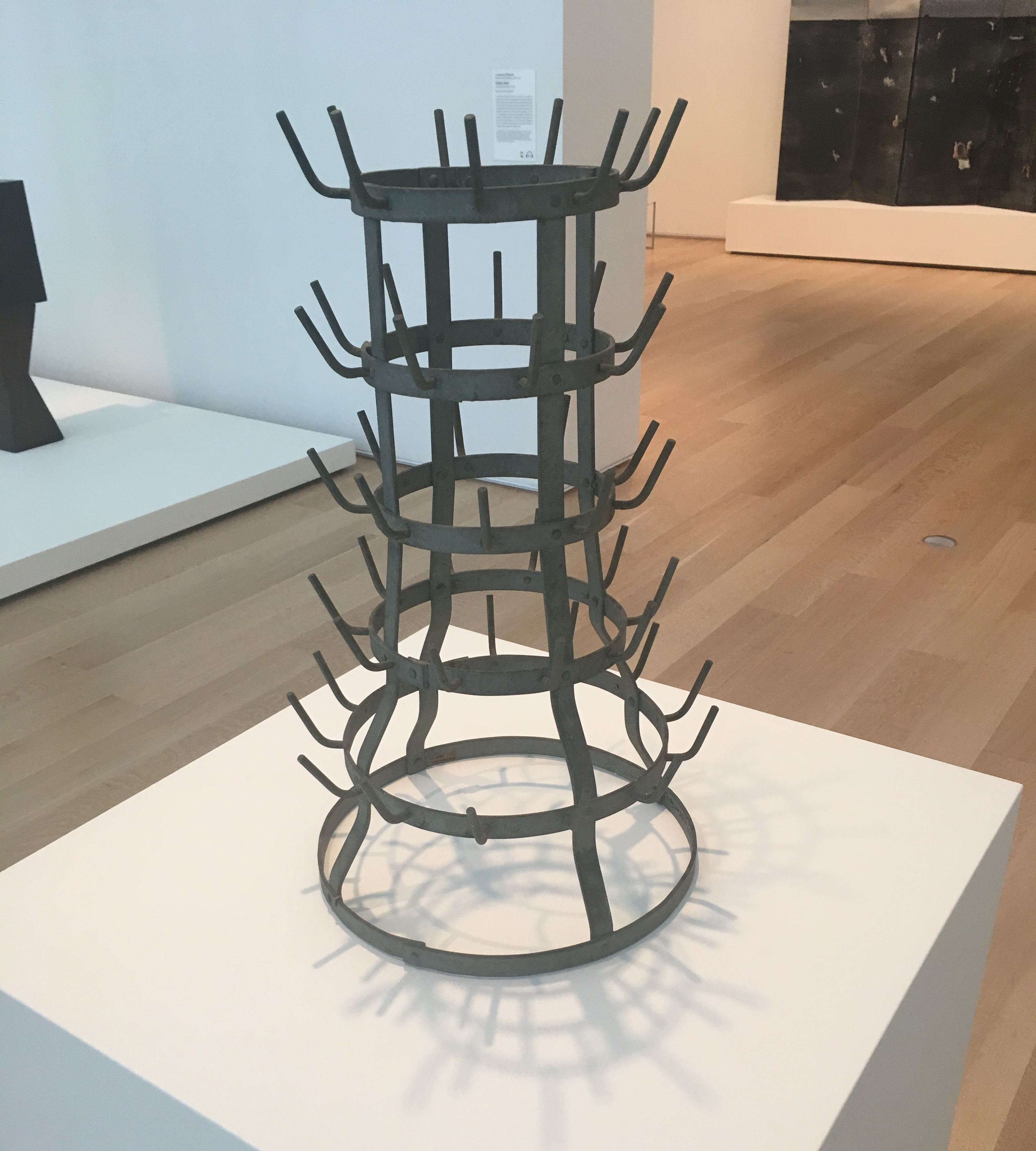 Replica of the 1914 Marcel Duchamp sculpture Bottle Rack, on display at the Art Institute of Chicago